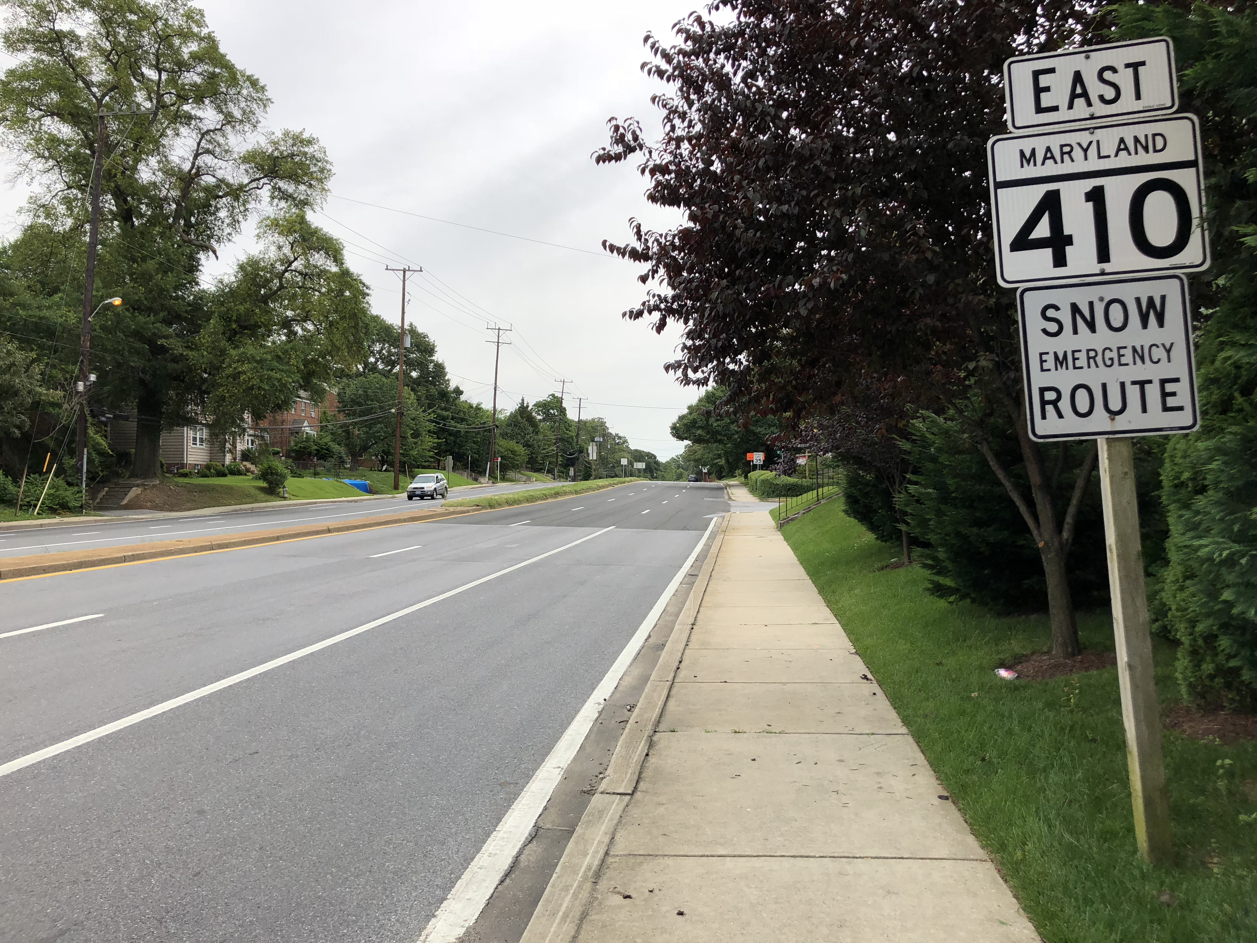 View east along Maryland State Route 410 (East-West Highway) at Maryland State Route 500 (Queens Chapel Road) on the border of University Park and Hyattsville in Prince George's County, Maryland